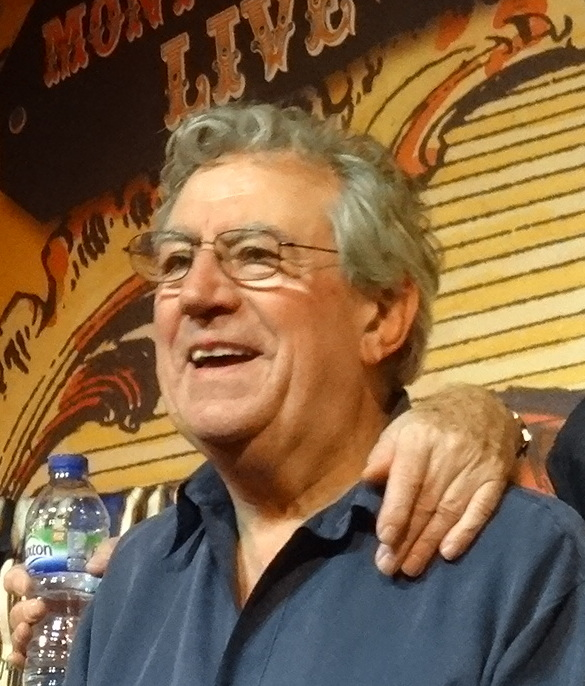 The Monty Python troup reunited after the Monty Python Live (Mostly) show.